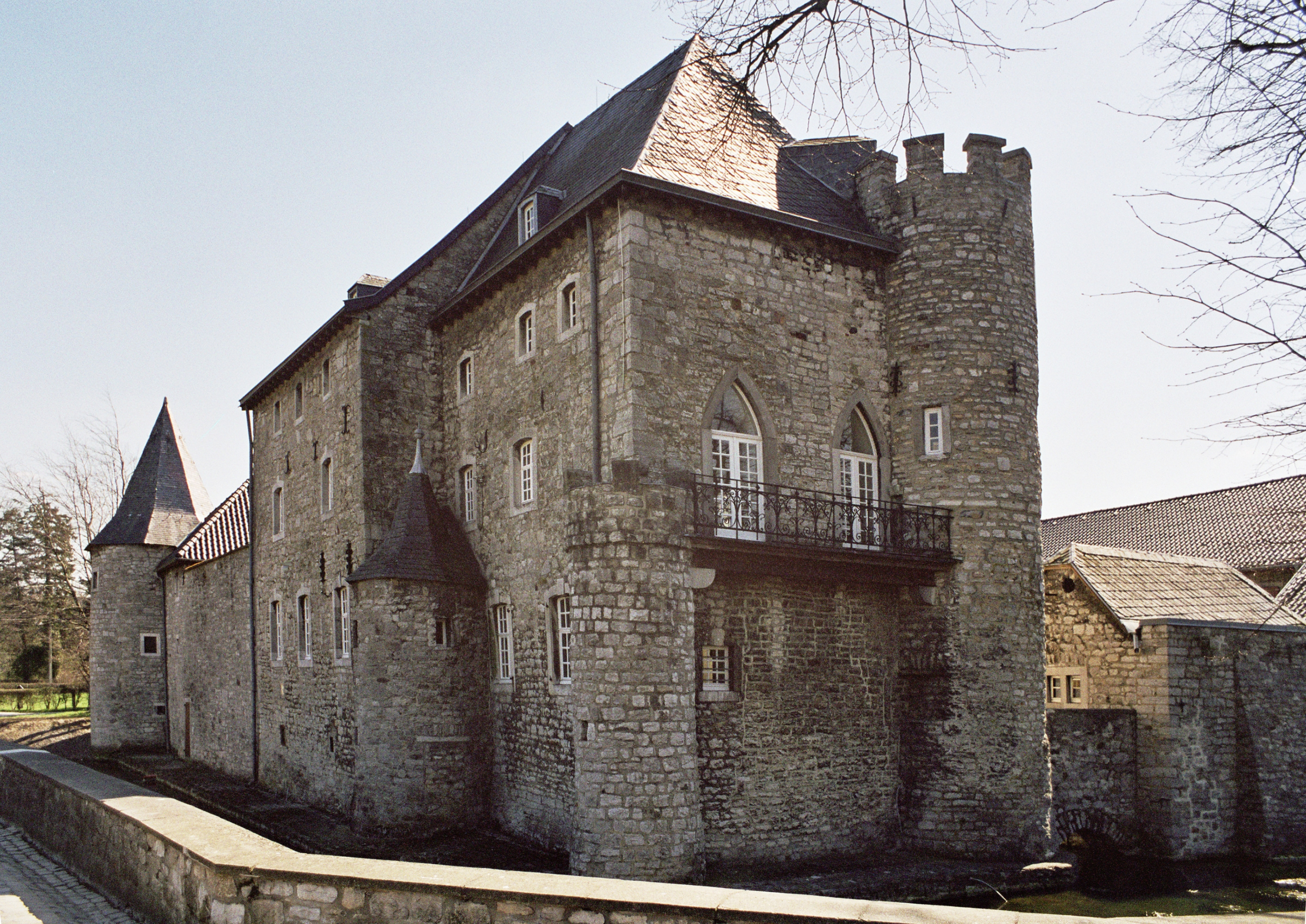 Castle of Raeren in Belgium